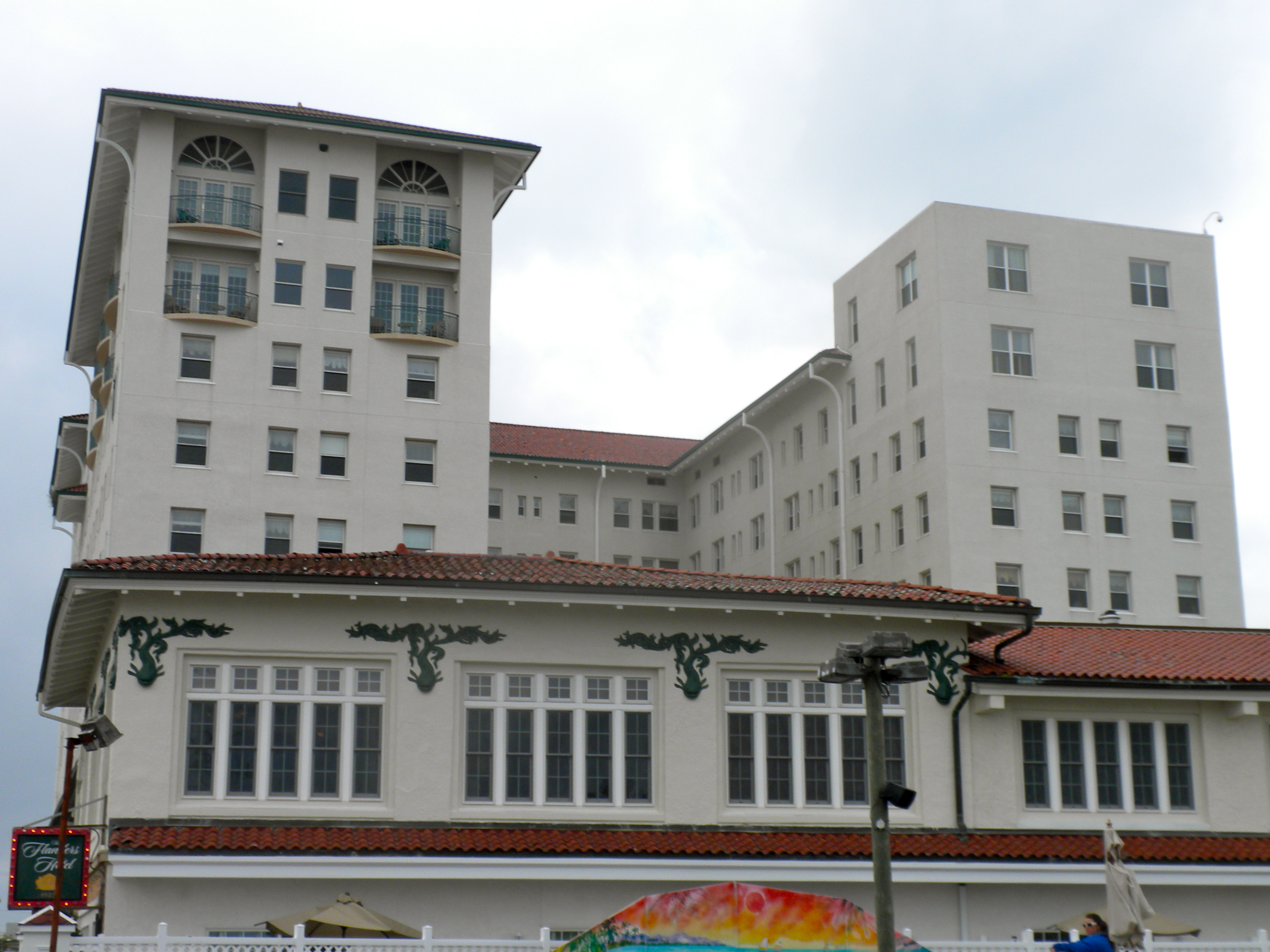 The Flanders Hotel on the NRHP since November 20, 2009. At 719 E. 11th St. (right on the Atlantic Ocean and boardwalk) Ocean City, New Jersey. NRHP refnum 09000939